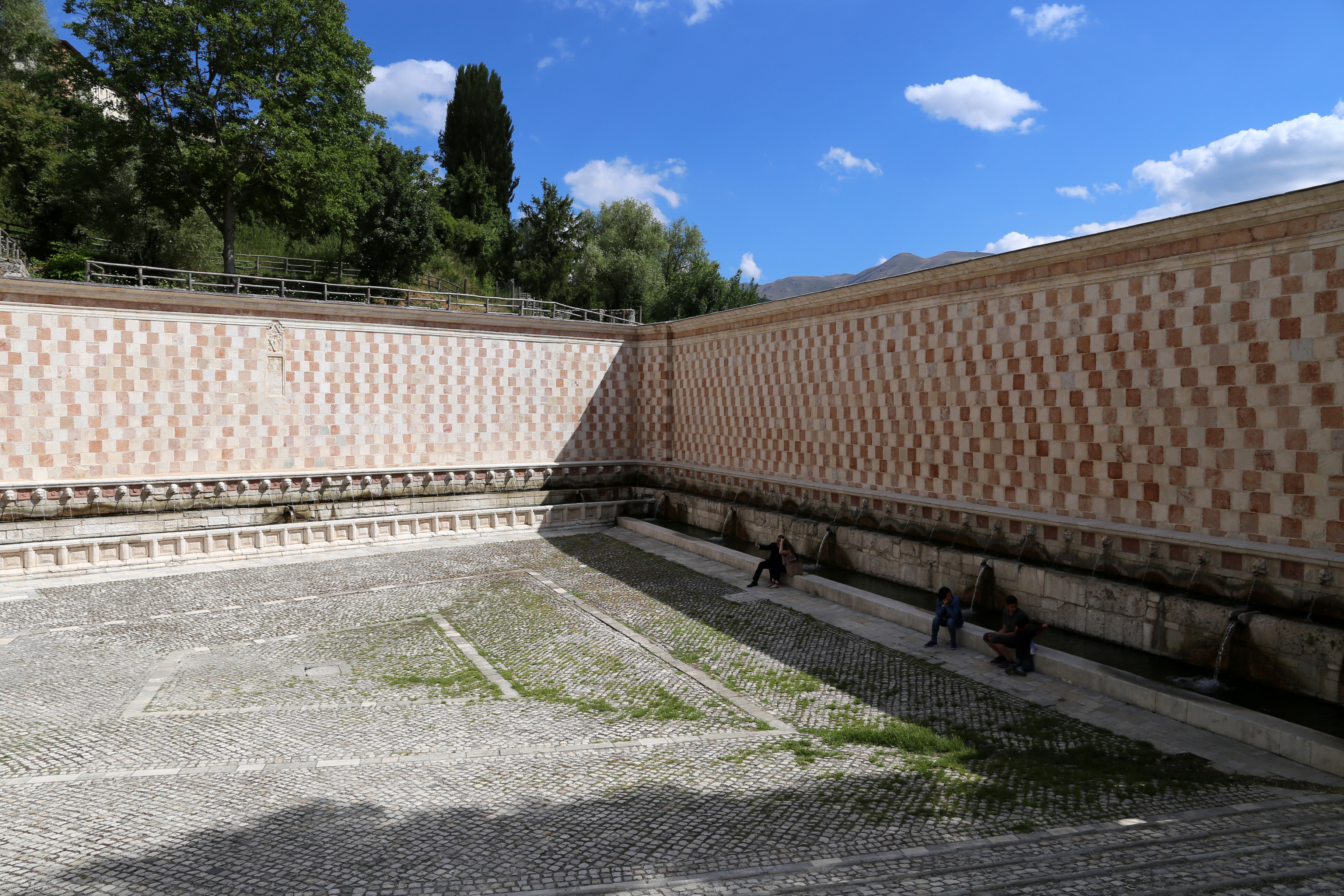 Fontana delle 99 cannelle (L'Aquila)